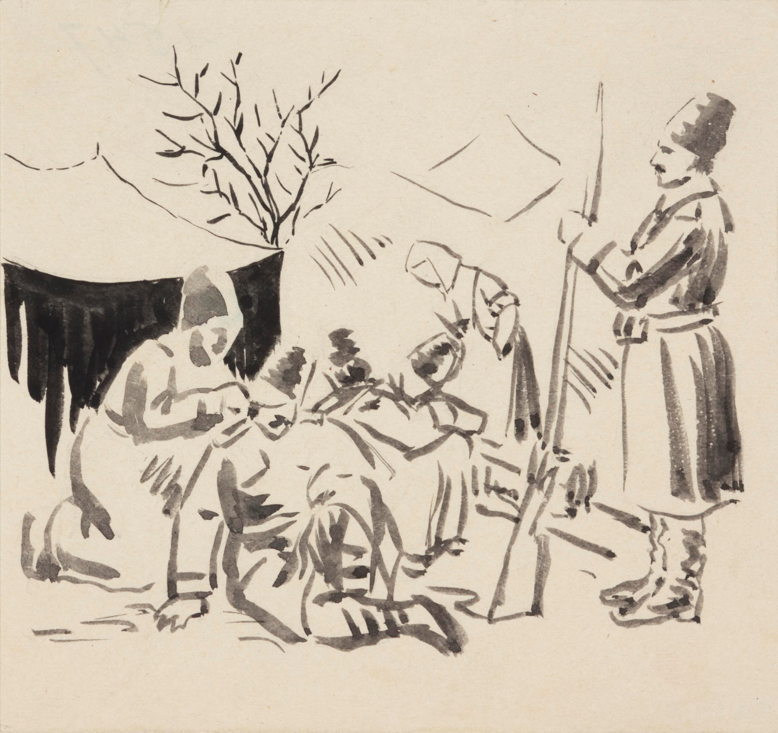 Aleksander Uurits. Military Hospital. 1914-17. Indian ink. Tartu Art Museum. MUIS:TKM TR 235:1 B 50